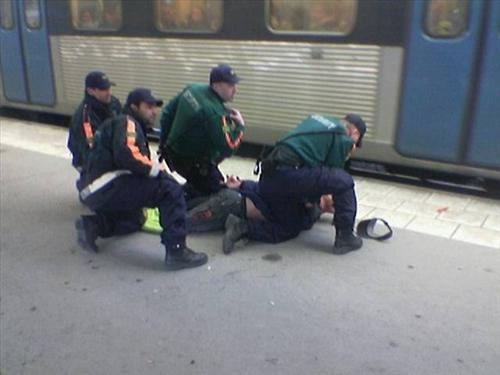 Commuter Security Group handling some antisocial element on a train station in Stockholm, 2005.